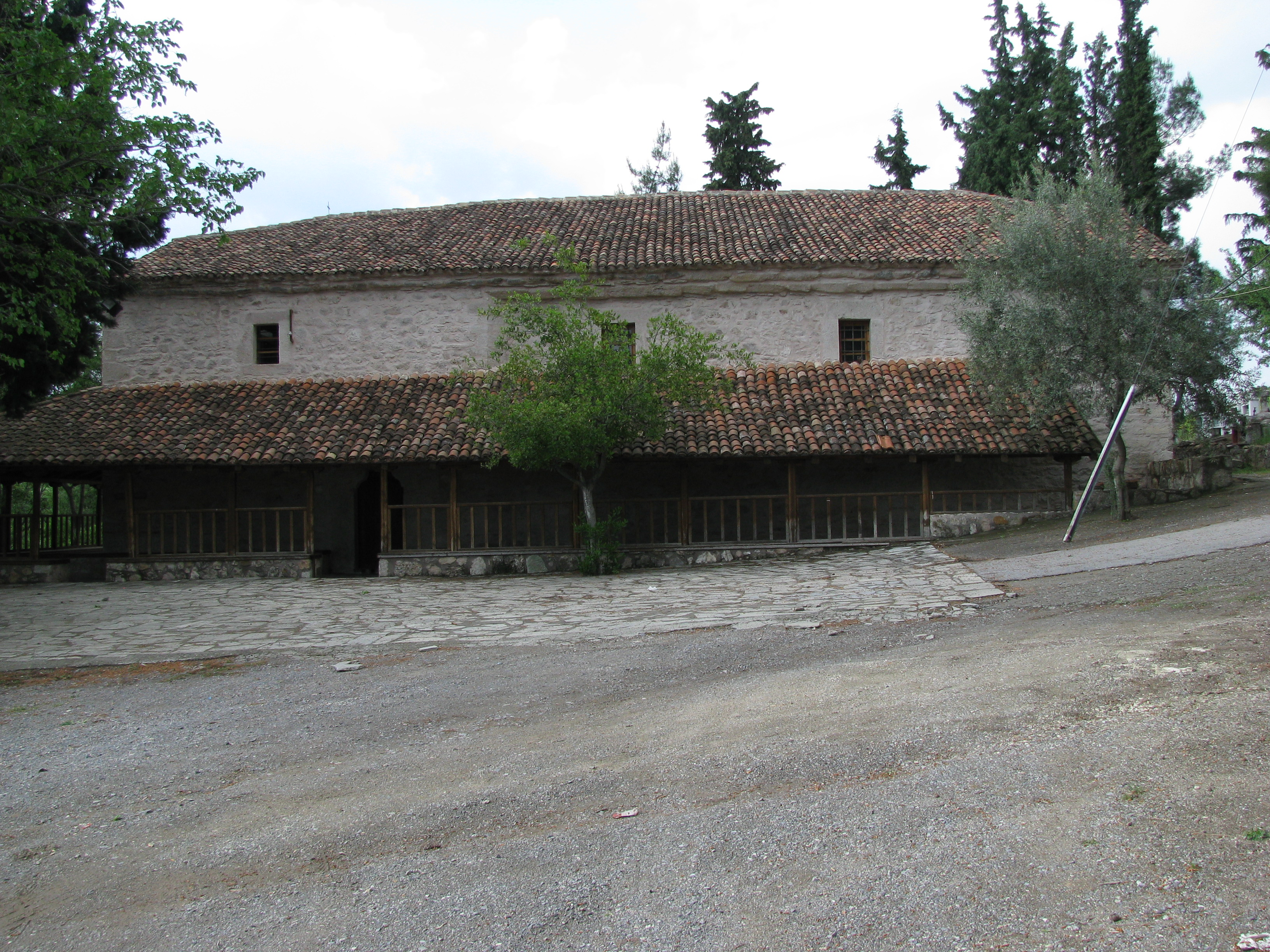 Church in the village of Pentaplatanos, Pella Prefecture, Greece.